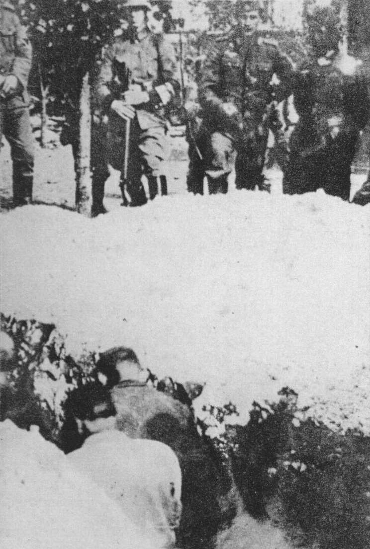 First days of September 1939. Mass execution of Poles in German-occupied Bydgoszcz. This photo was probably taken in the artillery barracks at 147 Gdańska Street in Bydgoszcz.